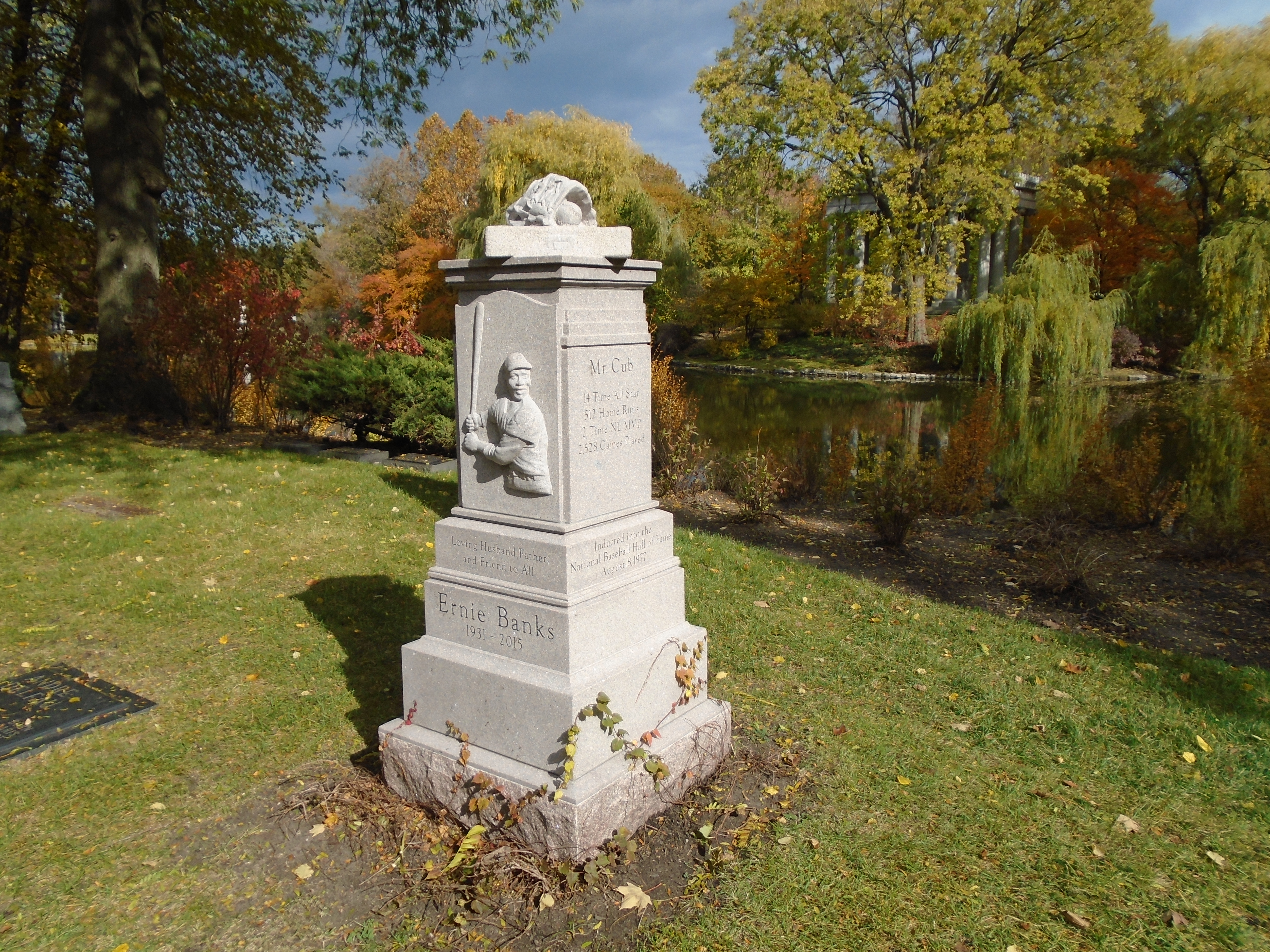 Grave of Ernie Banks in Graceland Commentary Chicago